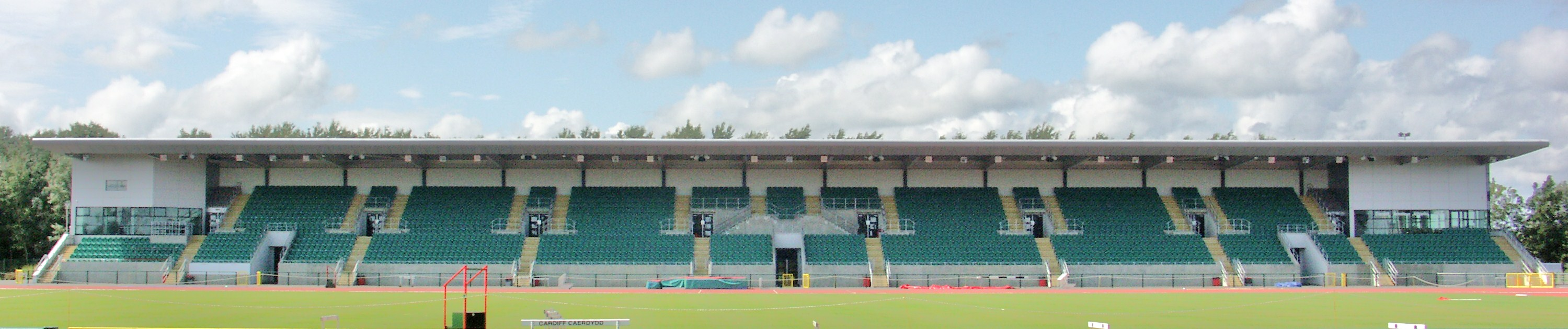 Cardiff International Sports Stadium-front